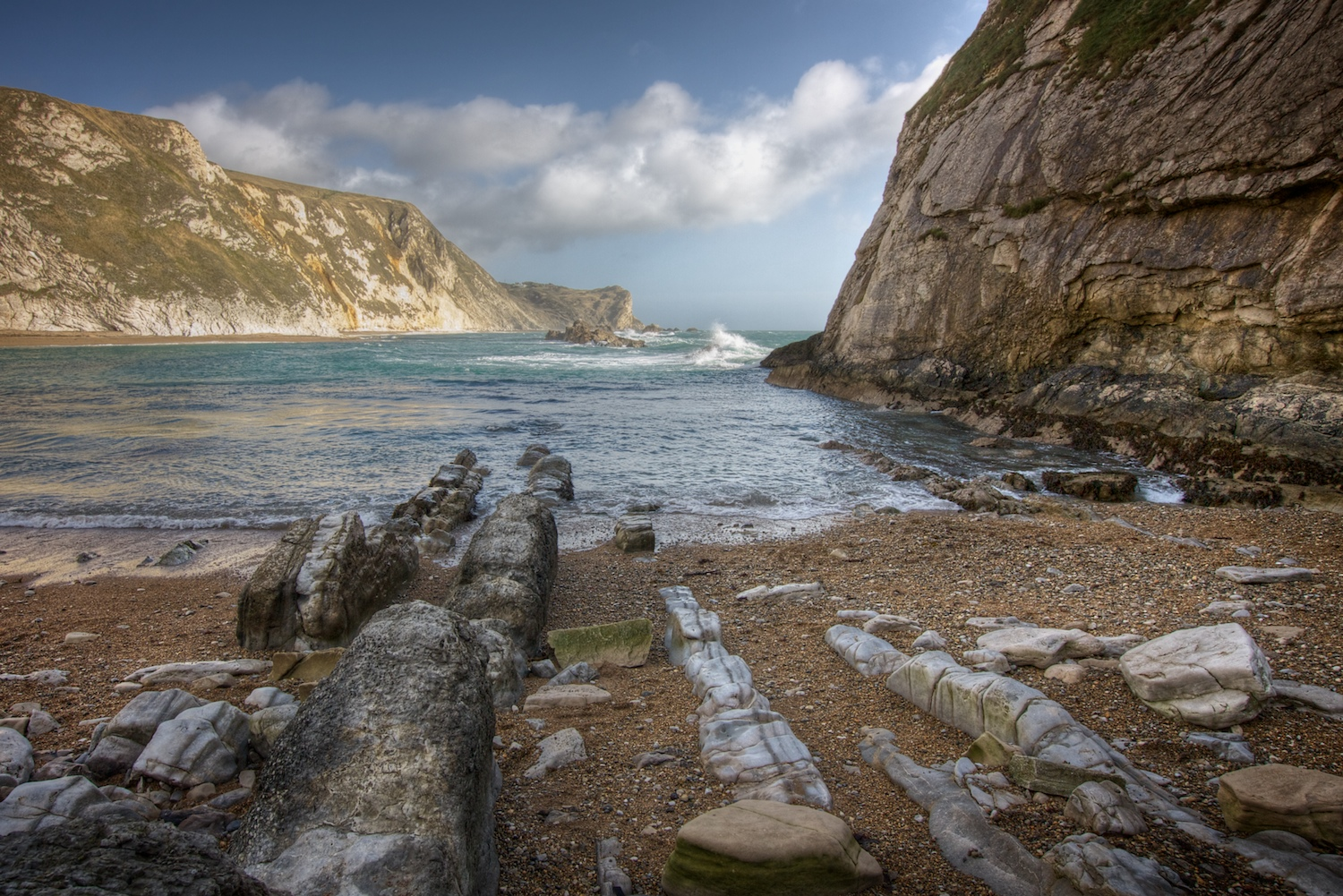 A trip to Durdle Door on the Dorset coast.